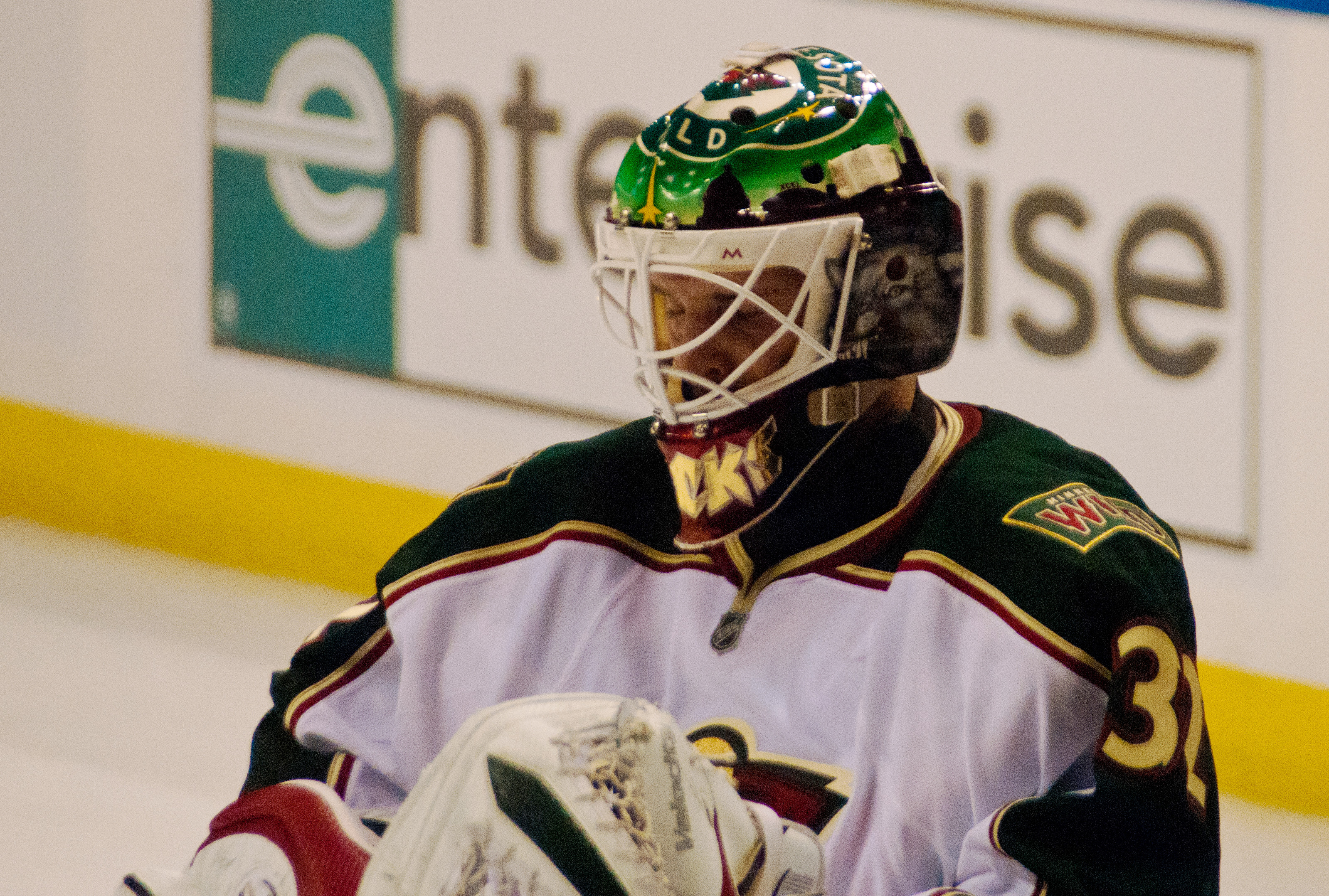 Goaltender Niklas Bäckström of the Minnesota Wild (2011)